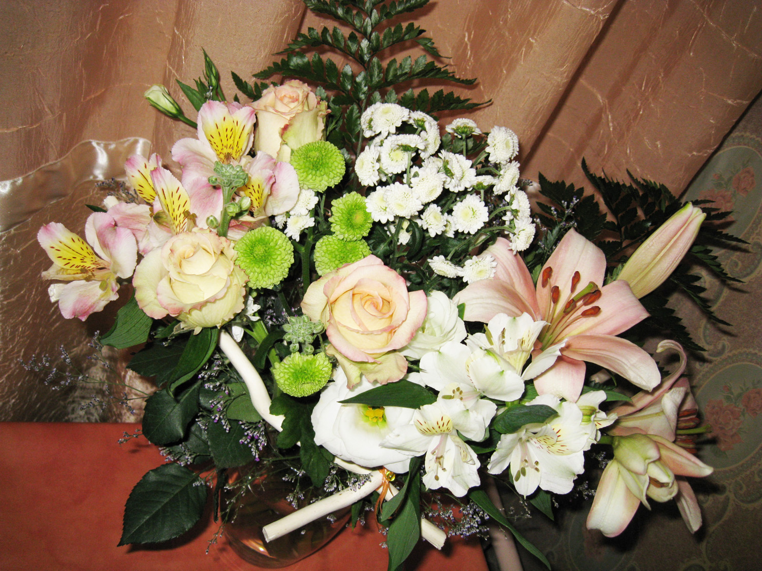 white flowers